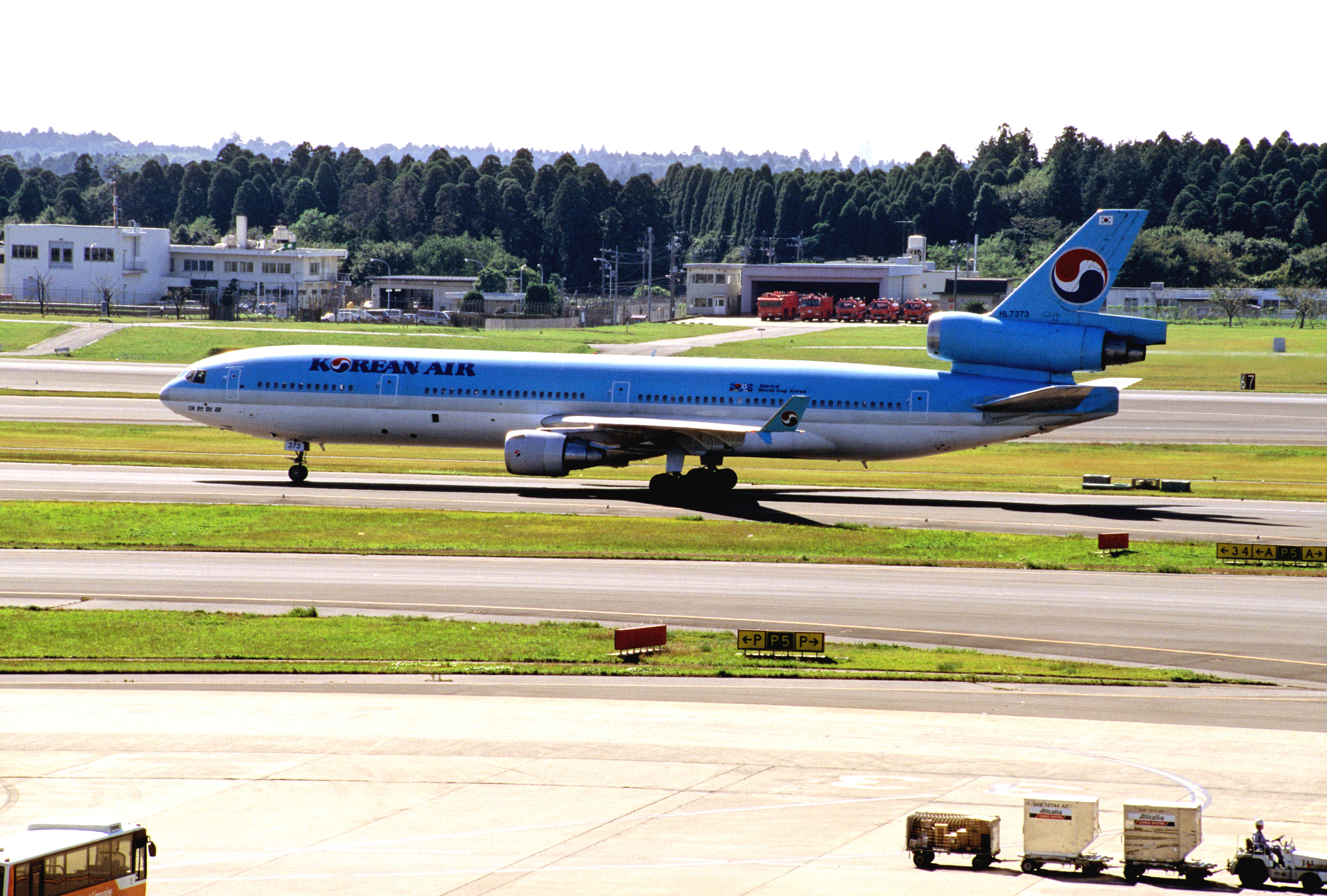 early 1990's...